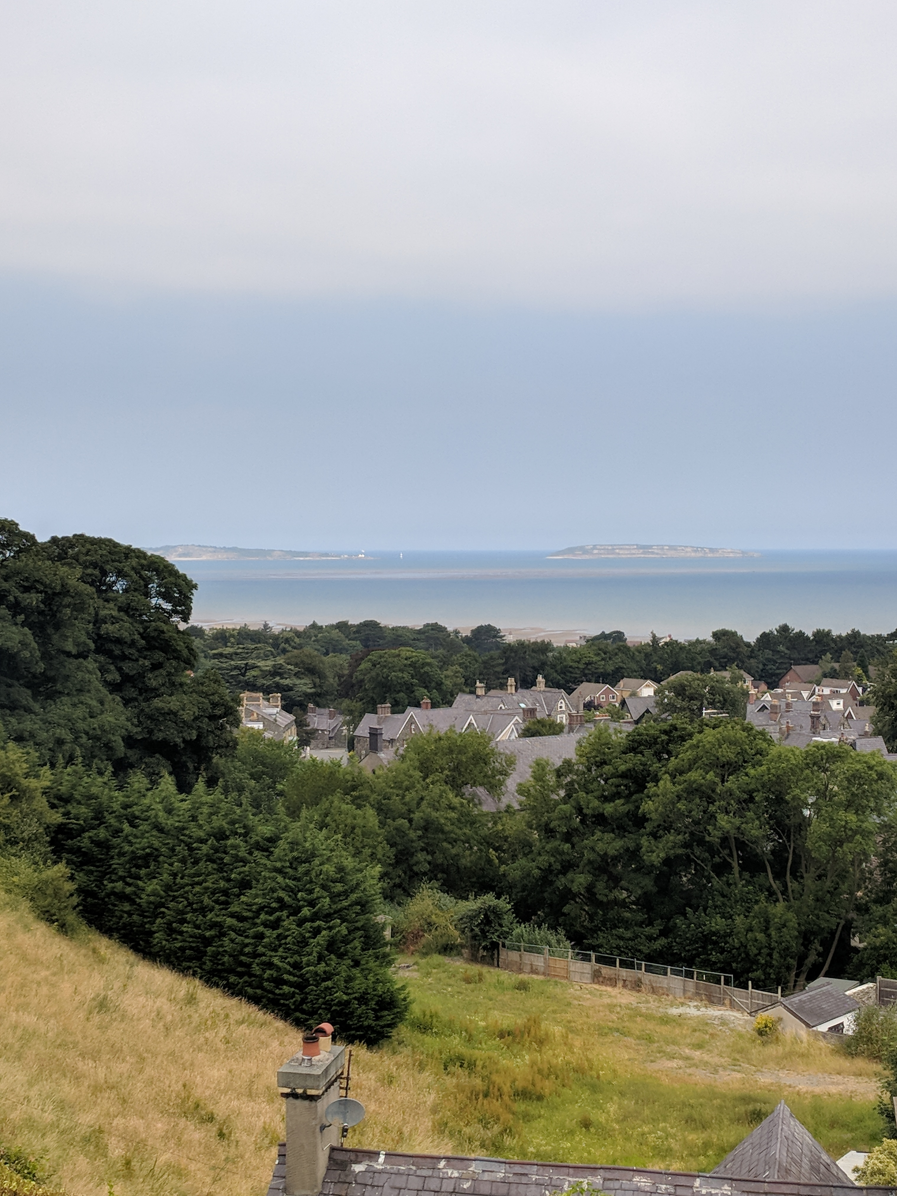 Llanfairfechan with Puffin Island and Anglesey behind